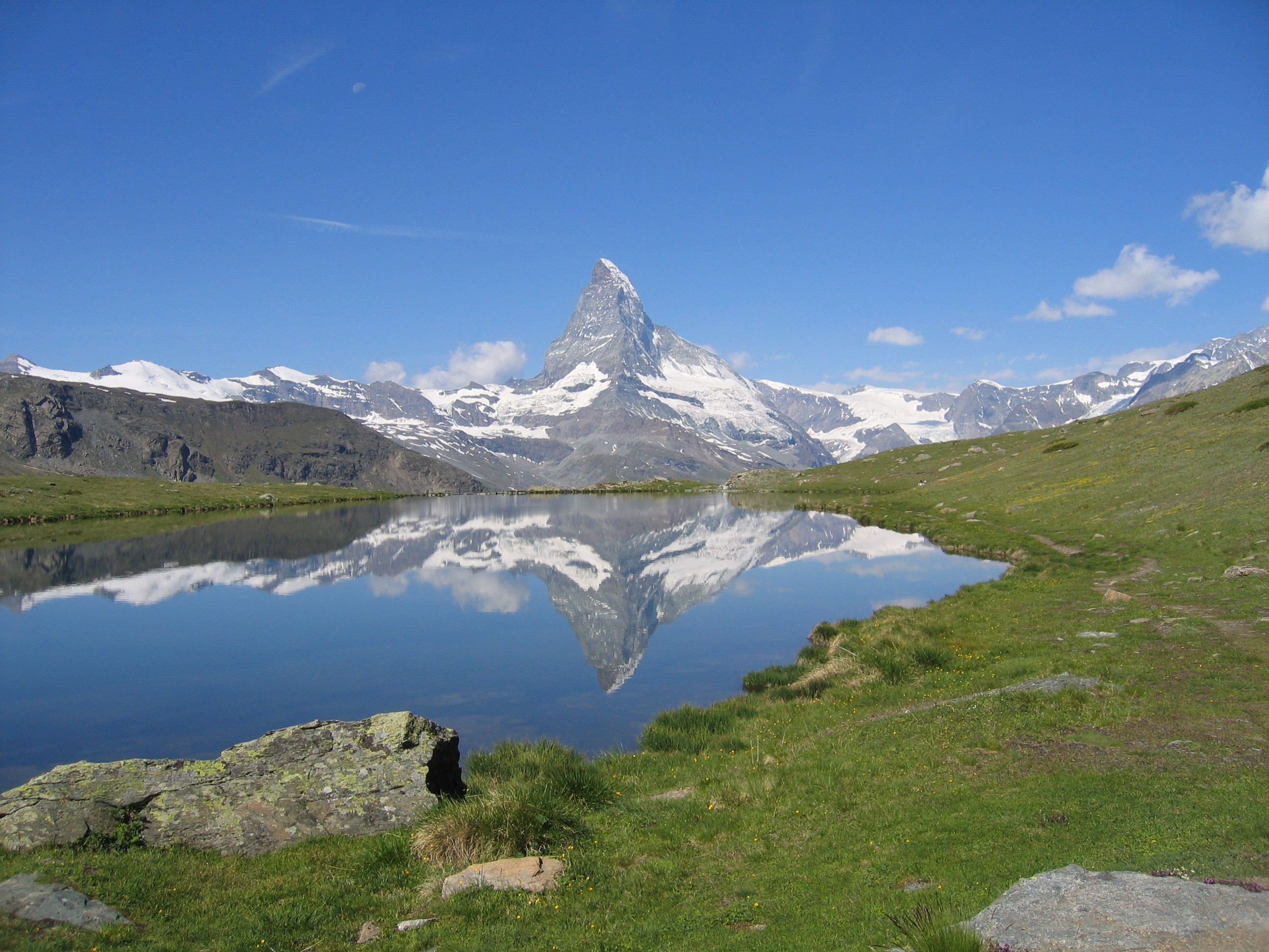 The Matterhorn, switzerland. Reflected in the Riffelsee